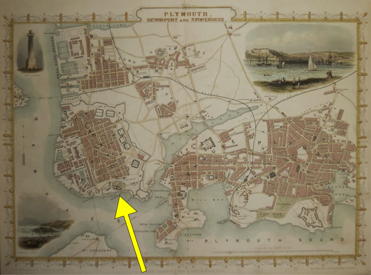 Mount Wise, Plymouth, Devon, indicated by yellow arrow (2016) on Map of Plymouth and Devonport, circa 1851